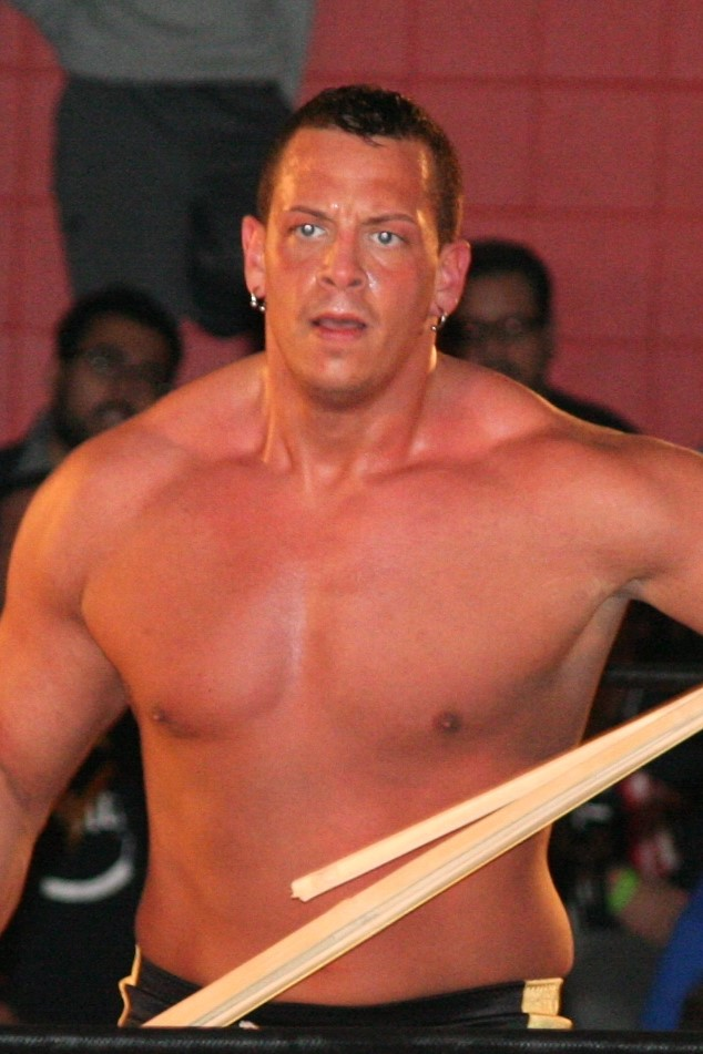 Kevin Matthews at a PWS show Rahway, New Jersey in 2014.